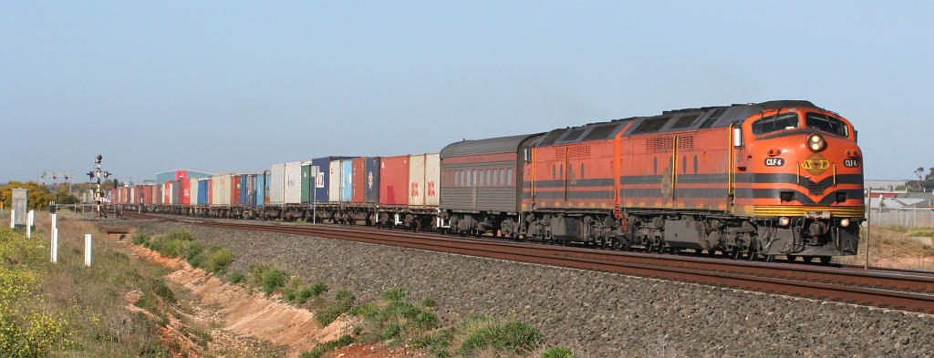 Australian Railroad Group operated intermodal train at Lara, Victoria, Australia. 2x CLP class then crewcar, container flats.